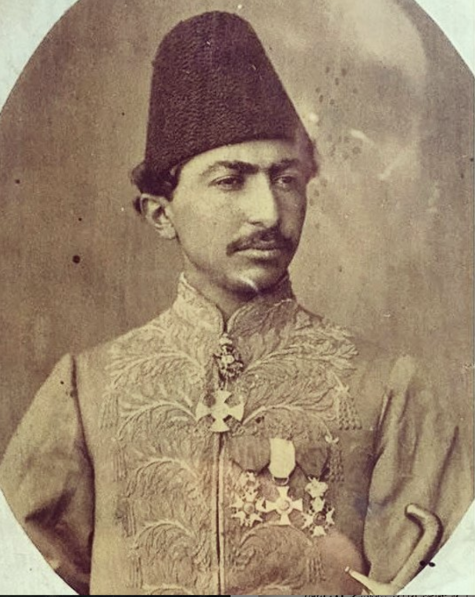 Majd ed-Dowleh Amirsoleimani, 1937